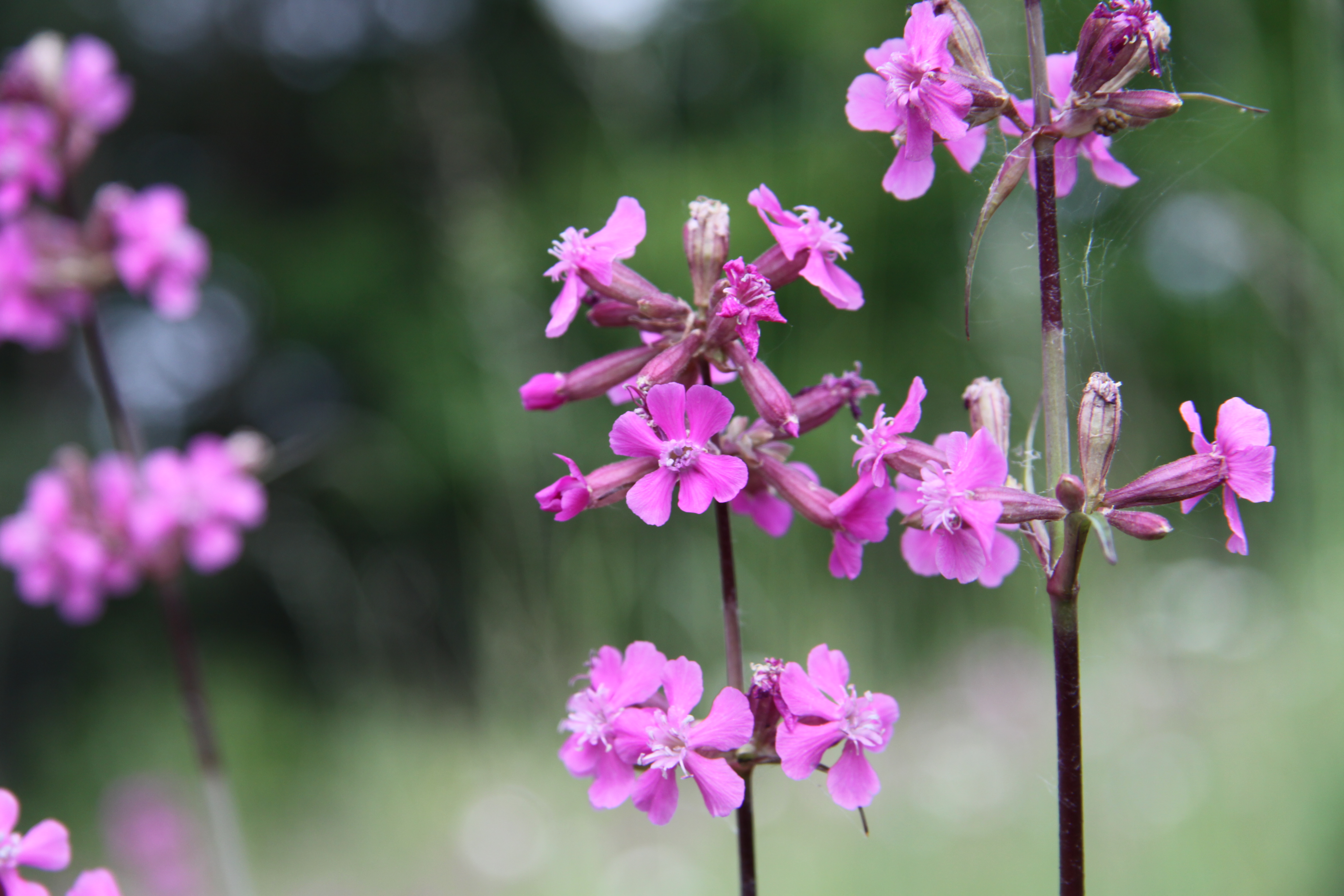 Natural monument Irův dvůr in Prachatice, Prachatice District, Czech Republic - Google Maps - Google Earth